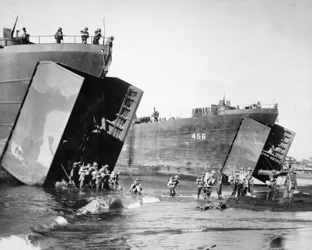 Australian troops disembarking from American Landing Ships, Tank (LST), including LST-456, East of LAE in preparation for the assault on that town. 20 MM Oerlikon AA Guns are mounted in the bows of thE LSTS. Note the method of stowing fuel drums on the deck of LST-456, ready for rapid jettisoning in case of fire.